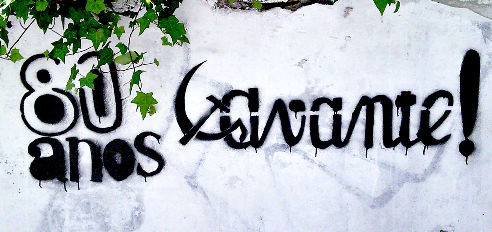 Avante - 80 years - Official Journal of the Portuguese Communist Party - Oporto - Portugal